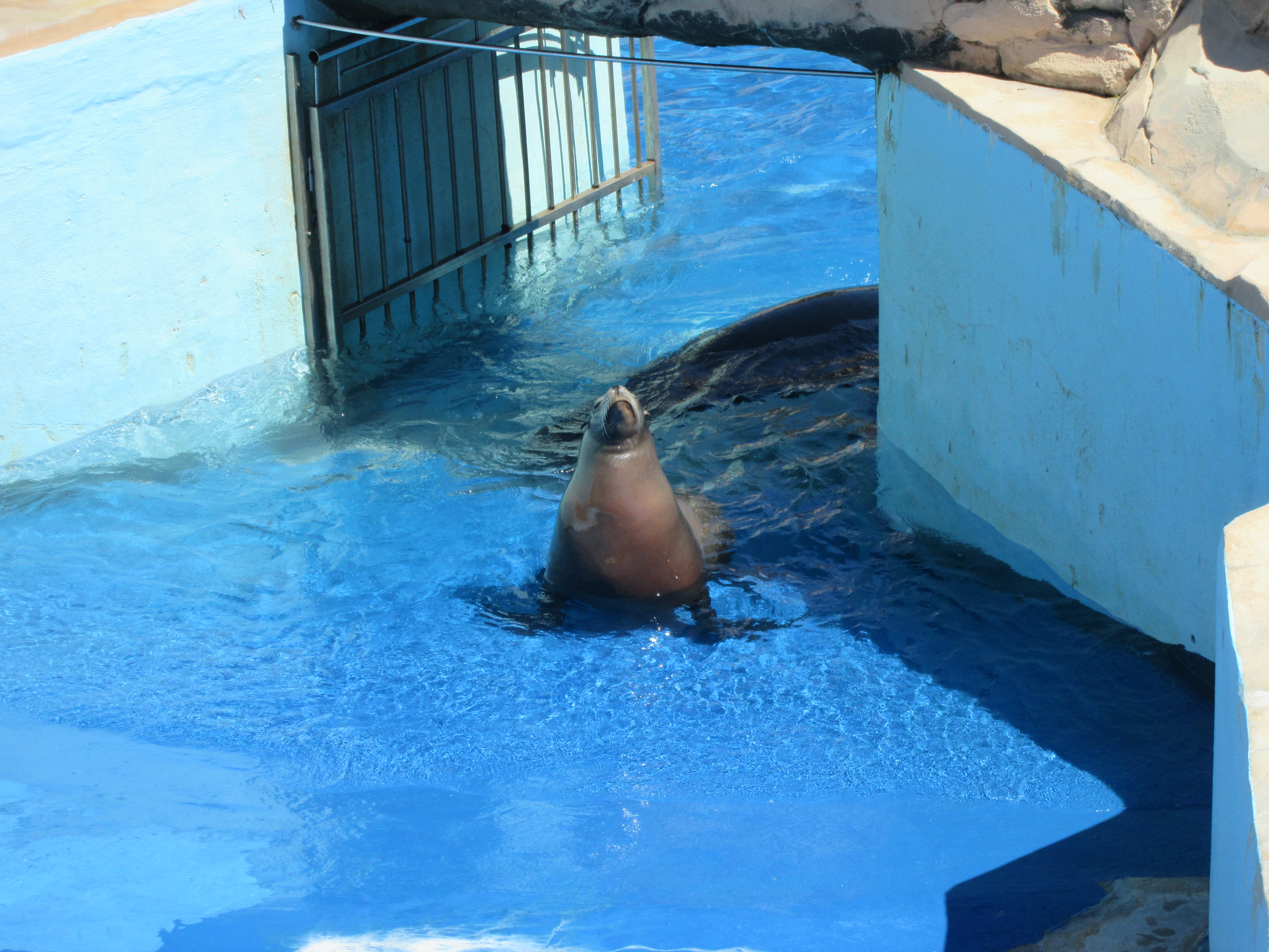 Zalophus californianus at Marineland of Antibes FRANCE